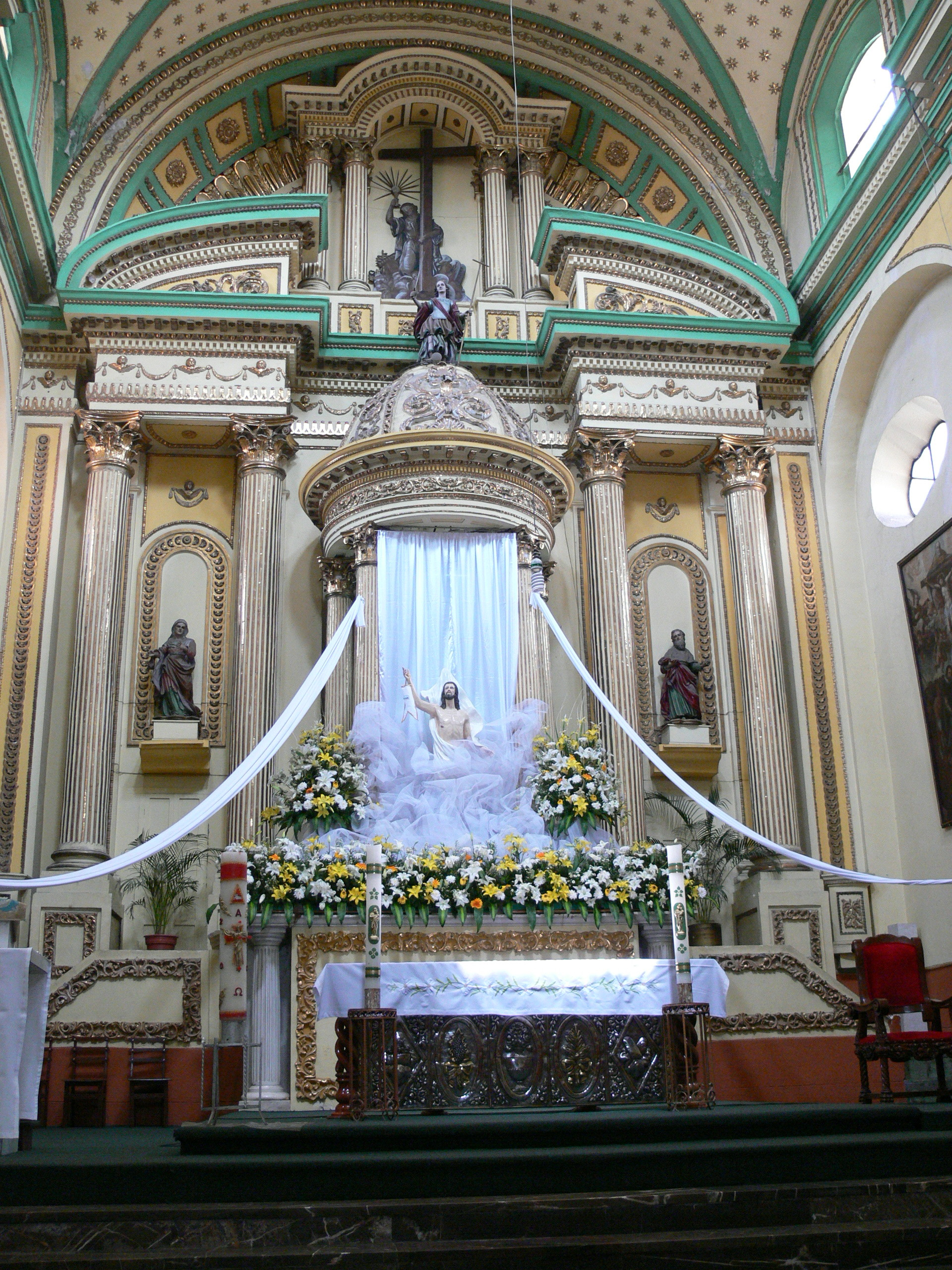 Tlaxcala city. San Jose parish church: High altar at Easter.